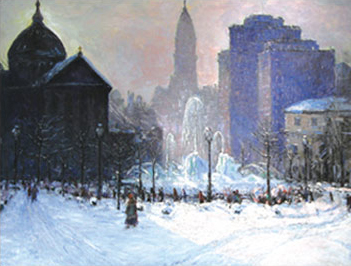 A painting by Fred Wagner (still need to figure out the title and other details).